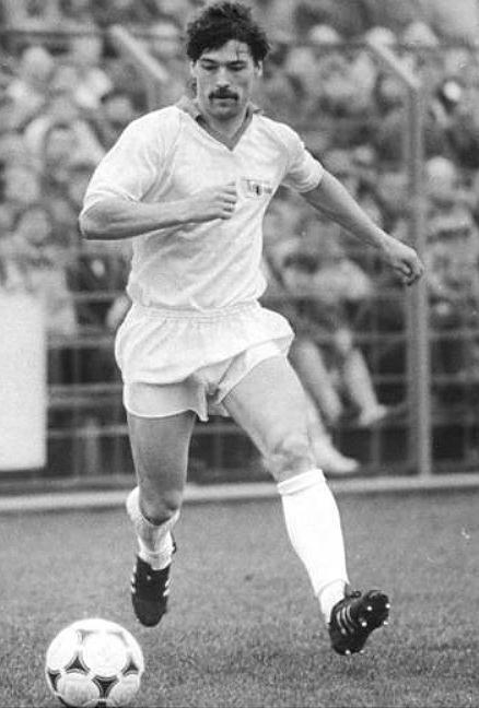 Title: 1. FC Union Berlin - FC Rot-Weiß Erfurt 2:1 Factual corrections and alternative descriptions are encouraged separately from the original description. Additionally errors can be reported at this page to inform the Bundesarchiv. Original historic description: ADN-ZB-Franke-1.4.88-ma-Berlin: Fußball-Oberliga- 1. FC Union Berlin - FC Rot-Weiß Erfurt 2:1. Martin Busse, der Torschütze in der 38. Spielminute zur 1:0-Führung der Gäste aus Erfurt, im Zweikampf mit Union-Abwehrspieler Matthias Morack (rechts).